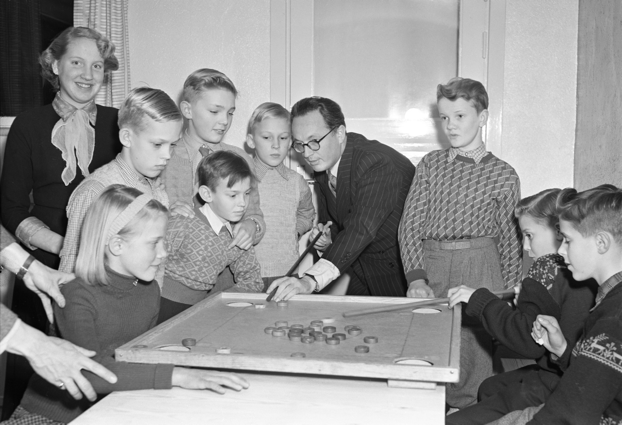 FOTOGRAFICeders café i Vitabergsparken invigs som ungdomsgård. 1951-1951FOTOGRAF: Ericsson, Vimar. Svenska DagbladetBILDNUMMER: SVD 27578Stadsmuseet i Stockholm